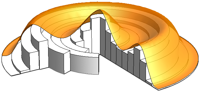 The undergraph of a volume of revolution can be approximated by a collection of hollow cylinders